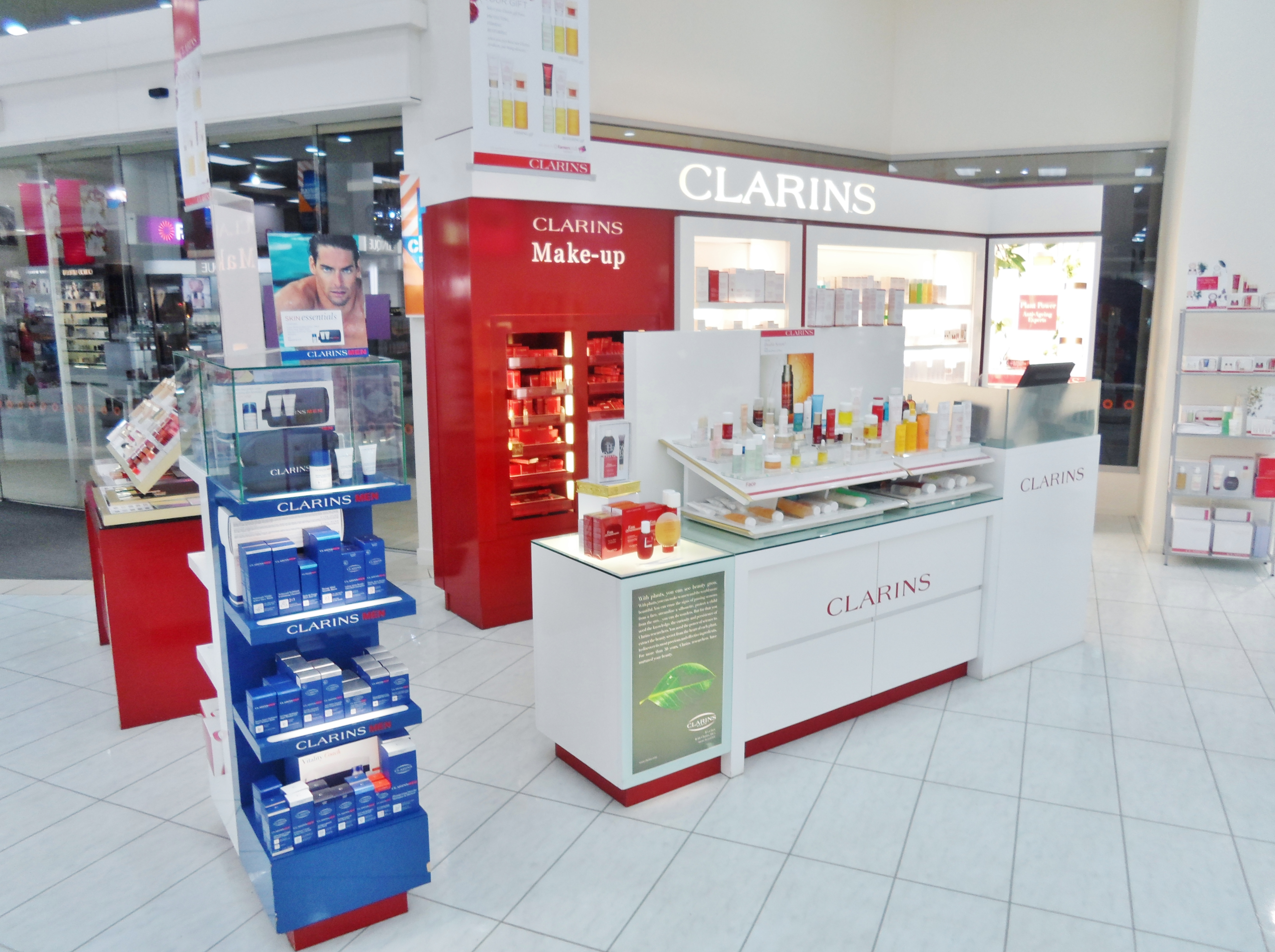 Clarins counter at New Zealand department store Farmers in Dunedin in 2013.